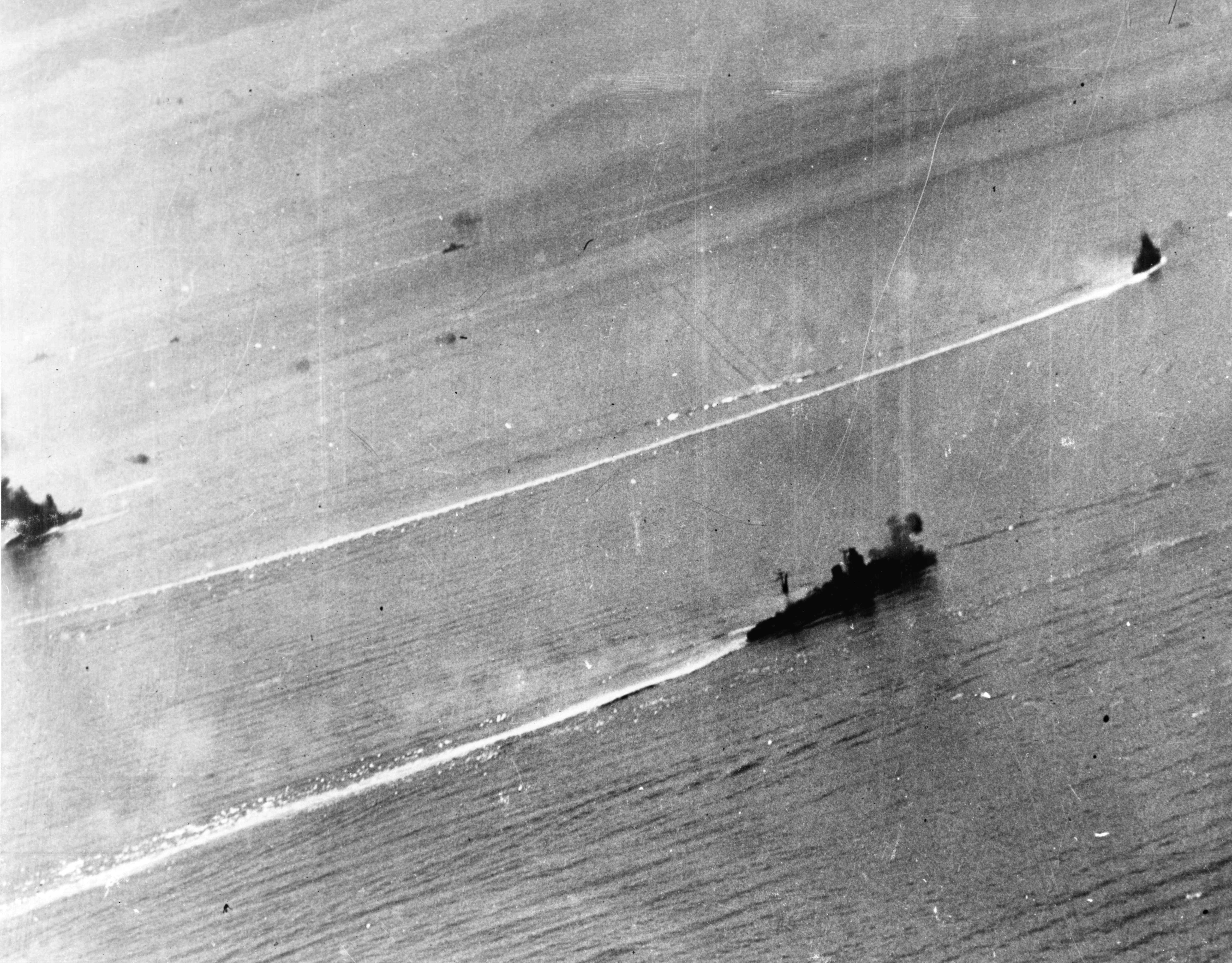 The Japanese light cruiser Noshiro under attack during the Battle of Sibuyan Sea, 24 October 1944. The original caption identifies the ship as either Agano or Noshiro. Agano, however, had been sunk on 17 February 1944. Noshiro was sunk on 26 October 1944.